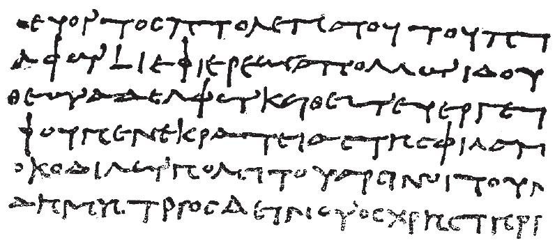 old greek papyrus